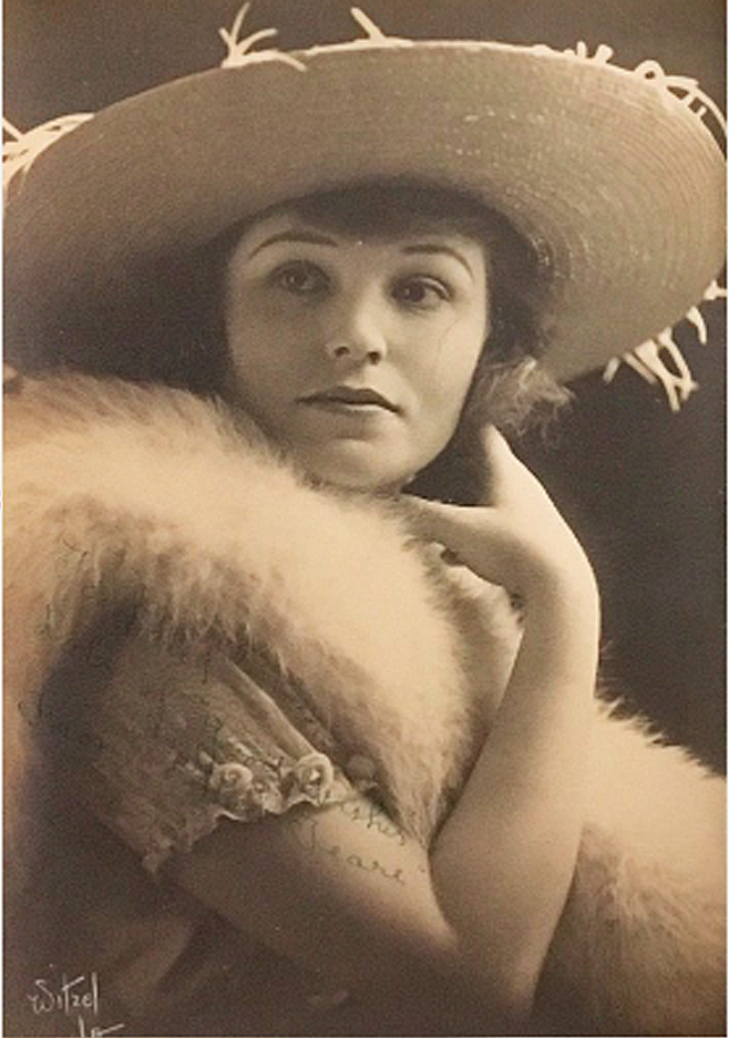 Ethel Teare Photo inscribed to Phil Dunham Witzel Photo Studio Los Angeles